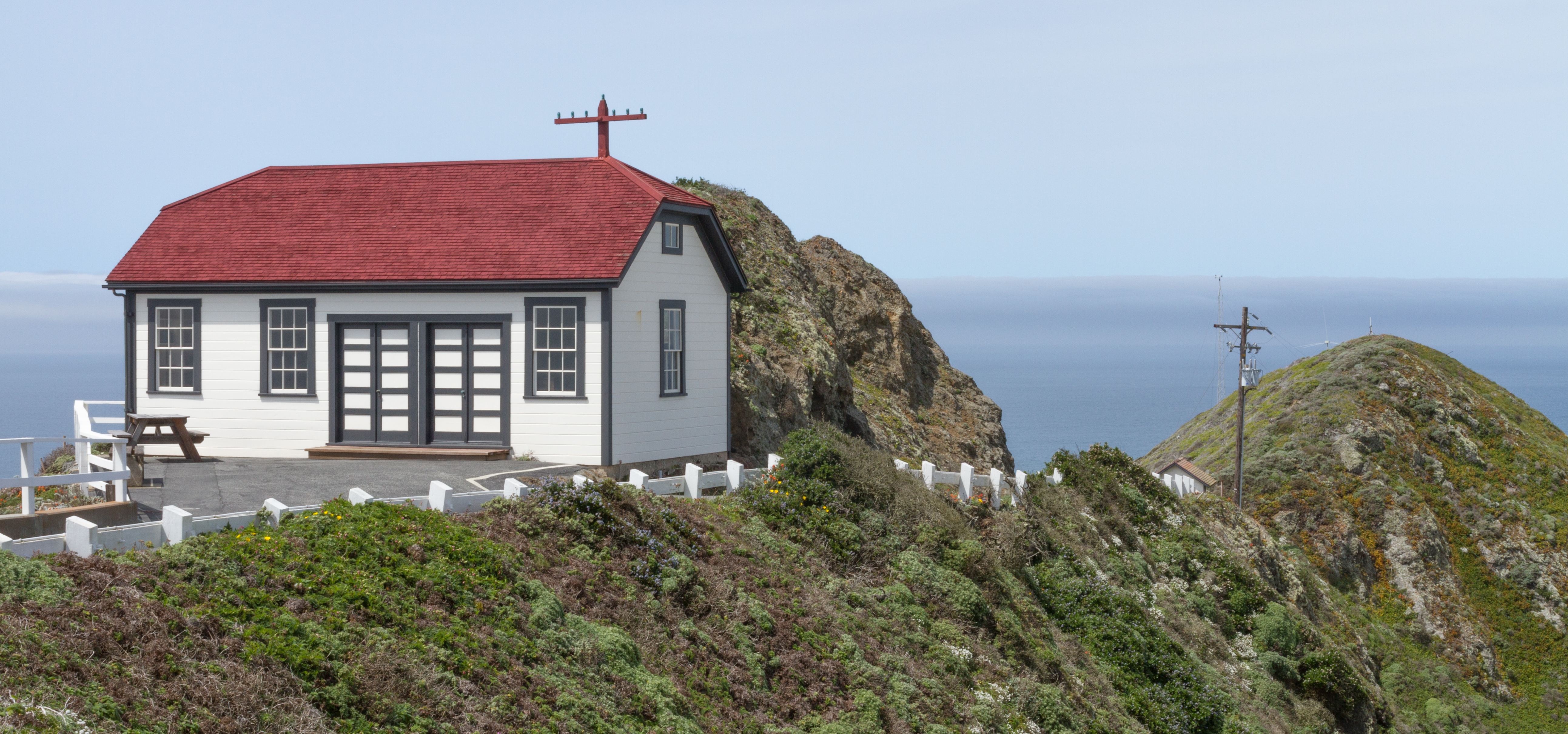 Point Sur Light Station, Monterey County, Big Sur, California.